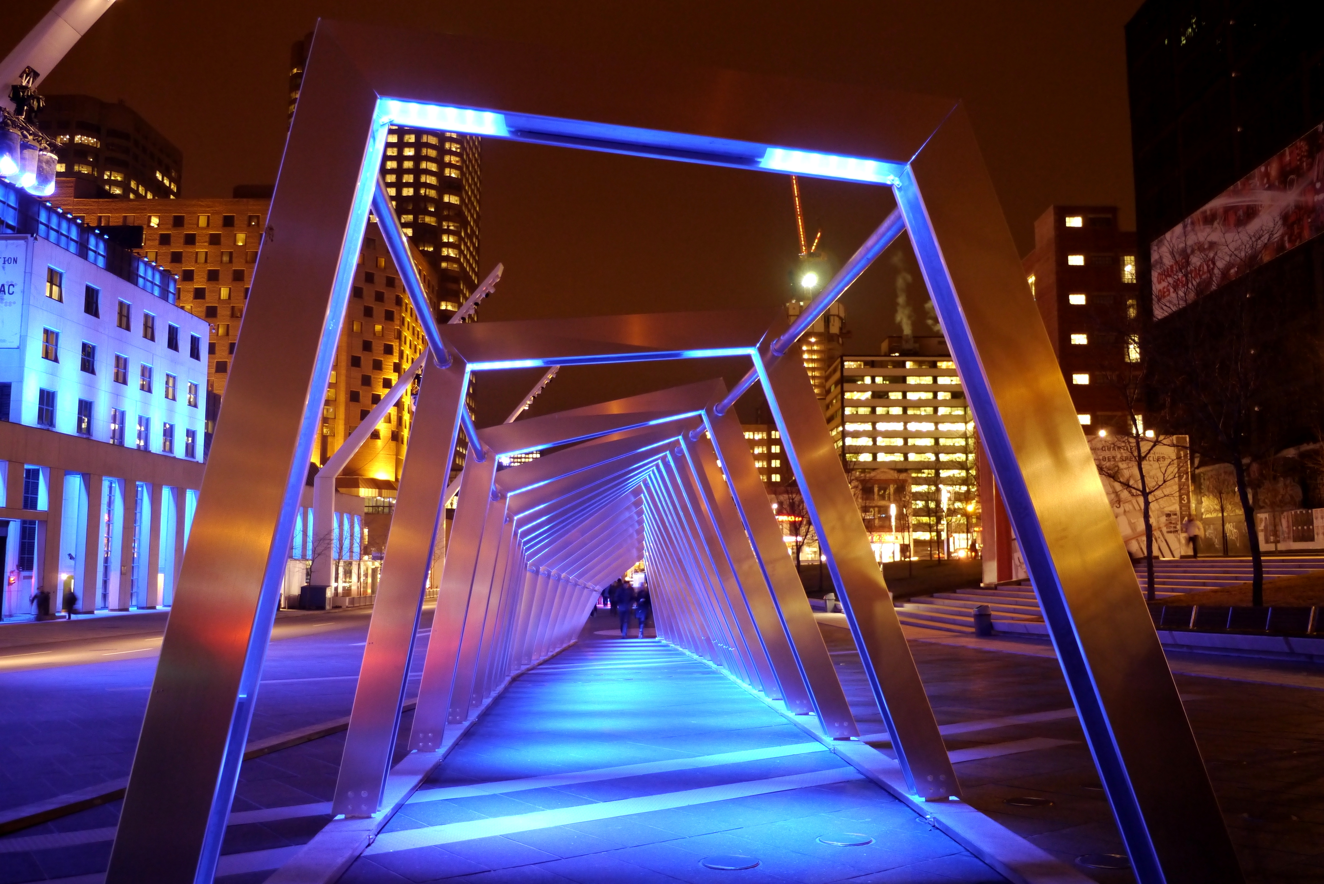 «Luminothérapie» 2012/2013, Iceberg, Place des festivals in Quartier des spectacles in Montreal.